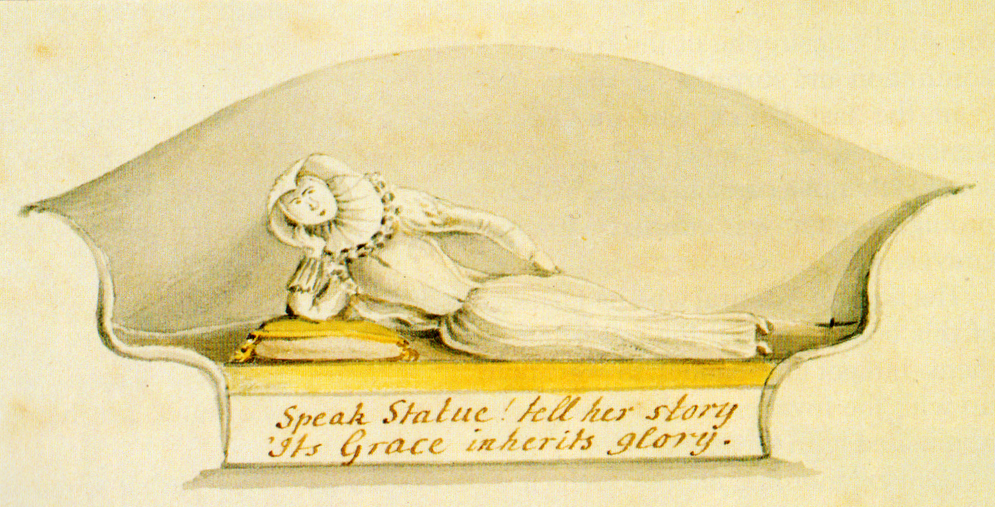 Monument to Grace Tothill (1605-1623), one of the two daughters and co-heiresses of Henry Tothill (d.1641) of Peamore, Exminster, Sheriff of Devon in 1623. Watercolour by Rev. John Swete (d.1821), collection of Devon Record Office: DRO 564M/F6/125 Inscribed as follows:[1] "This monument is erected to the memorye of Grace, Wife of William Tothill of the Middle Temple Esq., who havinge issue Henry, dyed the 24th day of Februarye 1623 in the 18th yere of Her age and lyeth buried in this Ile, she being the daughter of Henry Tothill of Peamount then Sherife of Devon and Mary his wife". "If Grace coulde length of dayes thee give, Or Vertue coulde have made thee live, If Goodnesse coulde thee heere have kept, Or tears of friendes which for thee wept, Then had'st thou lived amongst us heere, To whom thy vertues made thee deere. But thou a Sainte did'st Heaven aspire, Whilst heere on earthe wee thee admire. Then rest deere Corps in Mantle Clay, Till Christ thee raise the latter day. Thy years were fewe - thy glasse being runn, When death did ende - thy lyfe begunn." Beneath is a recumbent figure, in alabaster, of a female, the elbow resting on a pillow, the hand supporting the head. She wears ruff, mantle open at the front, showing the tight-fitting bodice, and long full skirt.[2] Beneath the figure are the lines:— "Speake statue tell her story, Its Grace inherits Glory."